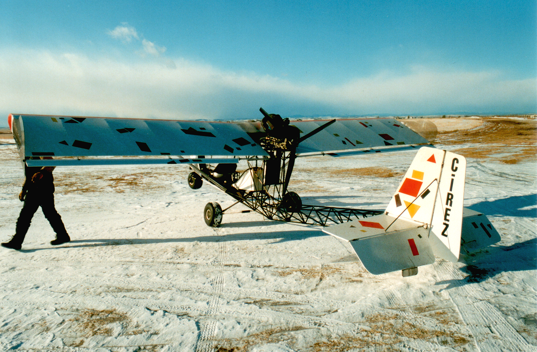 Blue Yonder EZ Flyer with Rotax 582 engine installed at Indus, Alberta